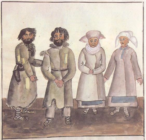 Kyiv (cut)